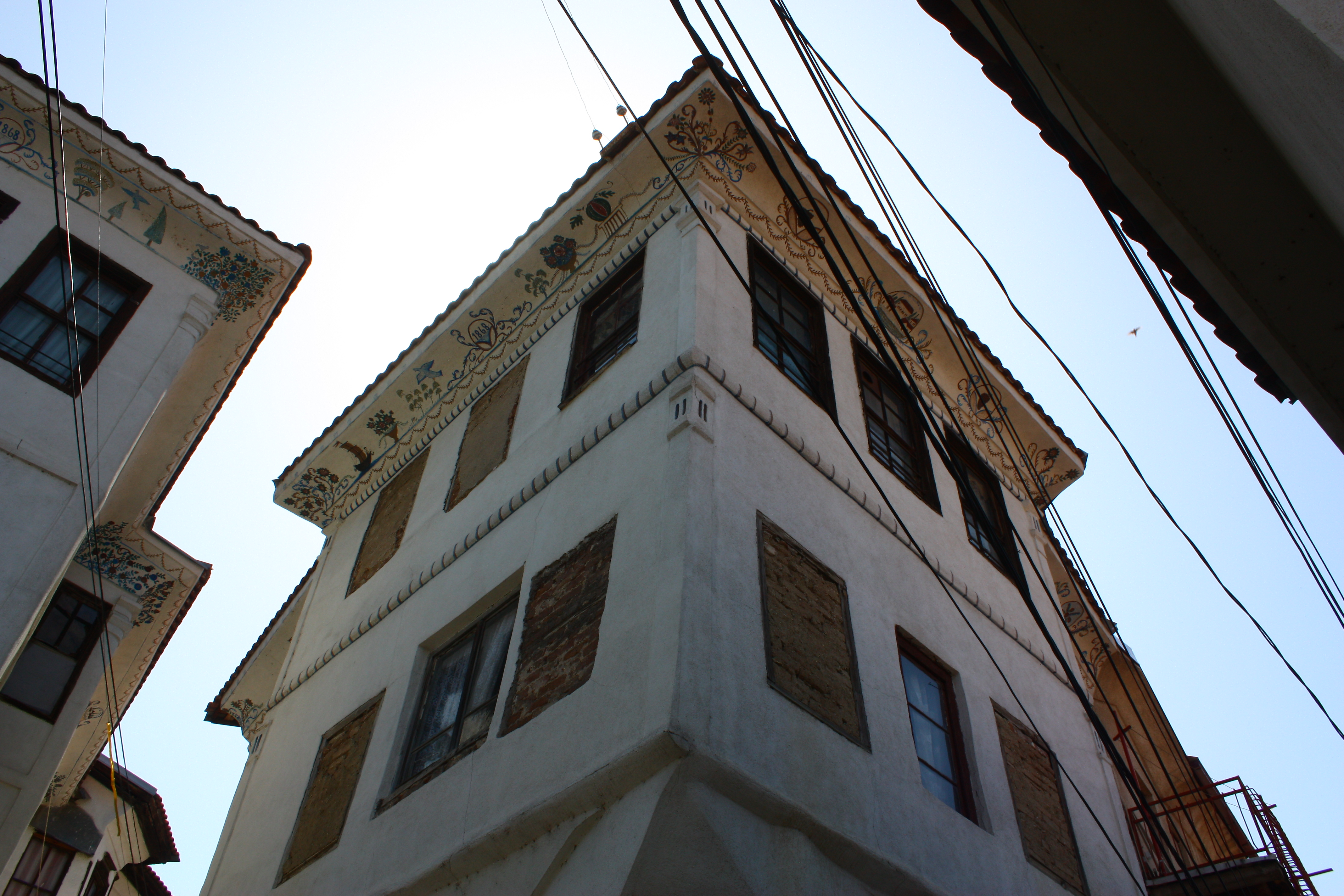 Vаrnalii complex in Veles, Macedonia.